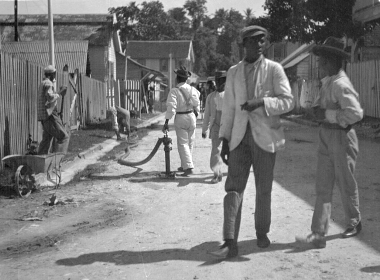 Street, man pumping water. Port Antonio, Jamaica (about 60 miles from Kingston). 1899. Name of Expedition: Allison V. Armour Expedition Participants: Charles F. Millspaugh, Edward P. Allen, Edward S. Isham Jr.,Jordan L. Mott Jr. Expedition Start Date: December 21, 1898 Expedition End Date: March 11, 1899 Purpose and Aims: Plant collecting and photography for Botany in the Bermuda, Bahamas, Haiti, Jamaica, Puerto Rico, Cuba, Yucatan. Vessel Name: Utowana (Yacht, Sailboat) Location: Central America, Jamaica, Port Antonio Original material: 4x5 inch Interpositive Digital Identifier: CSB4066 Learn more about The Field Museum's